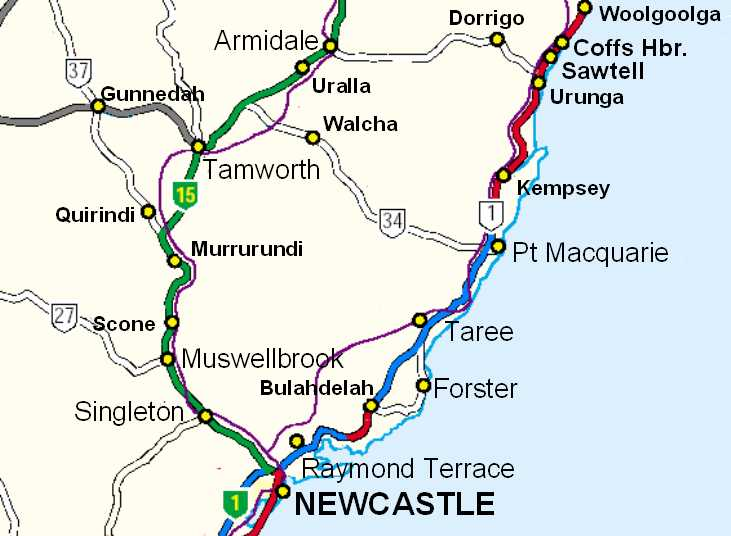 self drawn and released as public domain